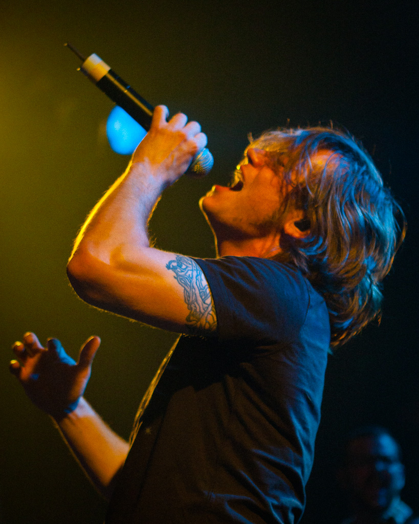 Thomas Godoj - Live at Batschkapp, Frankfurt, Germany - May 2, 2010